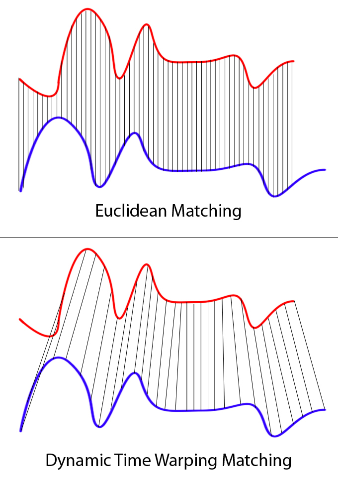 Diffference in matching between Euclidean and Dynamic Time Warping